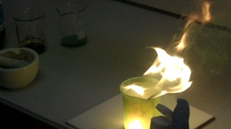 Oxidation of Ethanol with Chromium trioxide.